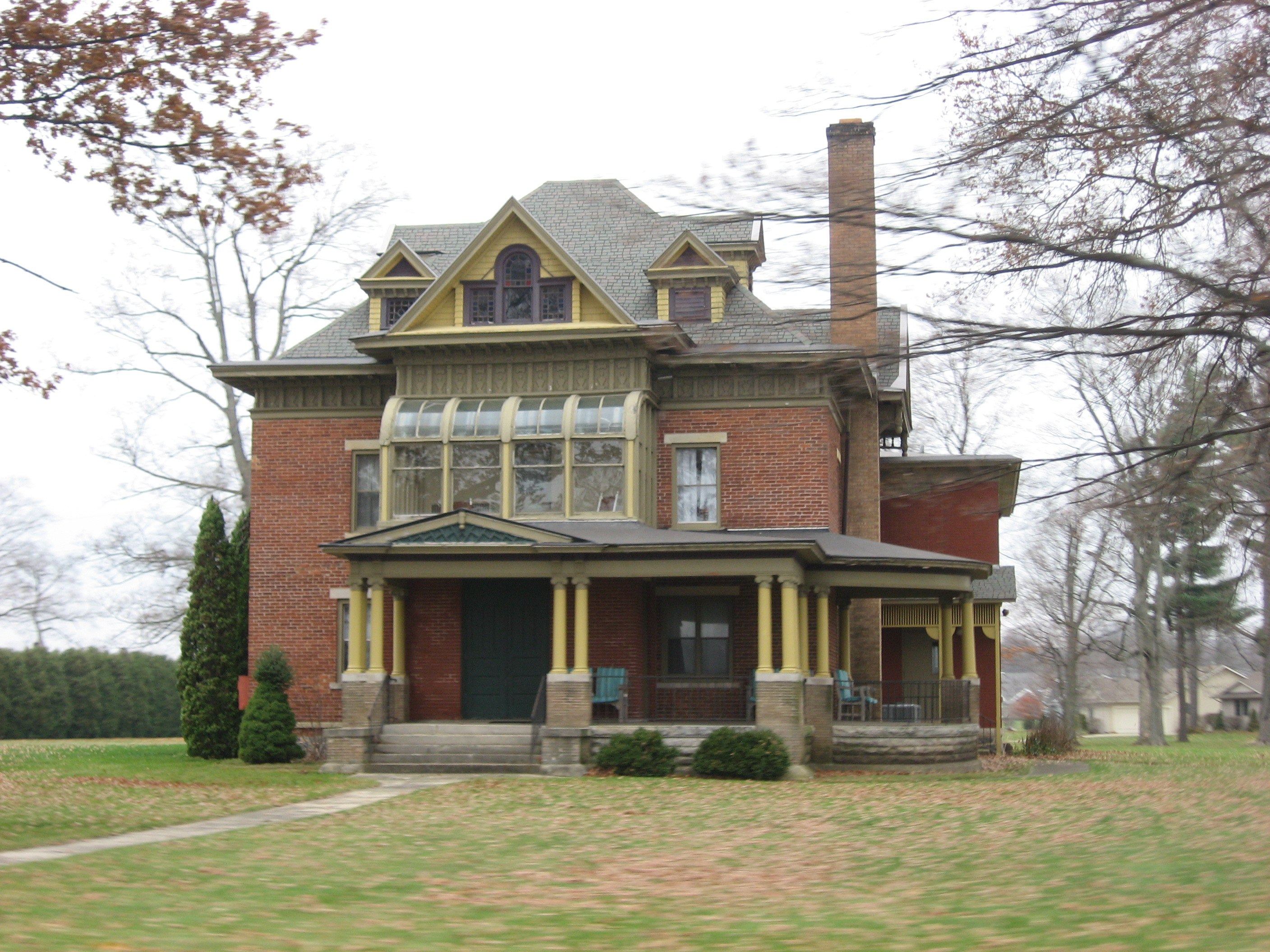 Front of the Haven Hubbard House, located at 31895 Chicago Trail northeast of New Carlisle in Olive Township, St. Joseph County, Indiana, United States. Built in 1880, it is listed on the National Register of Historic Places.